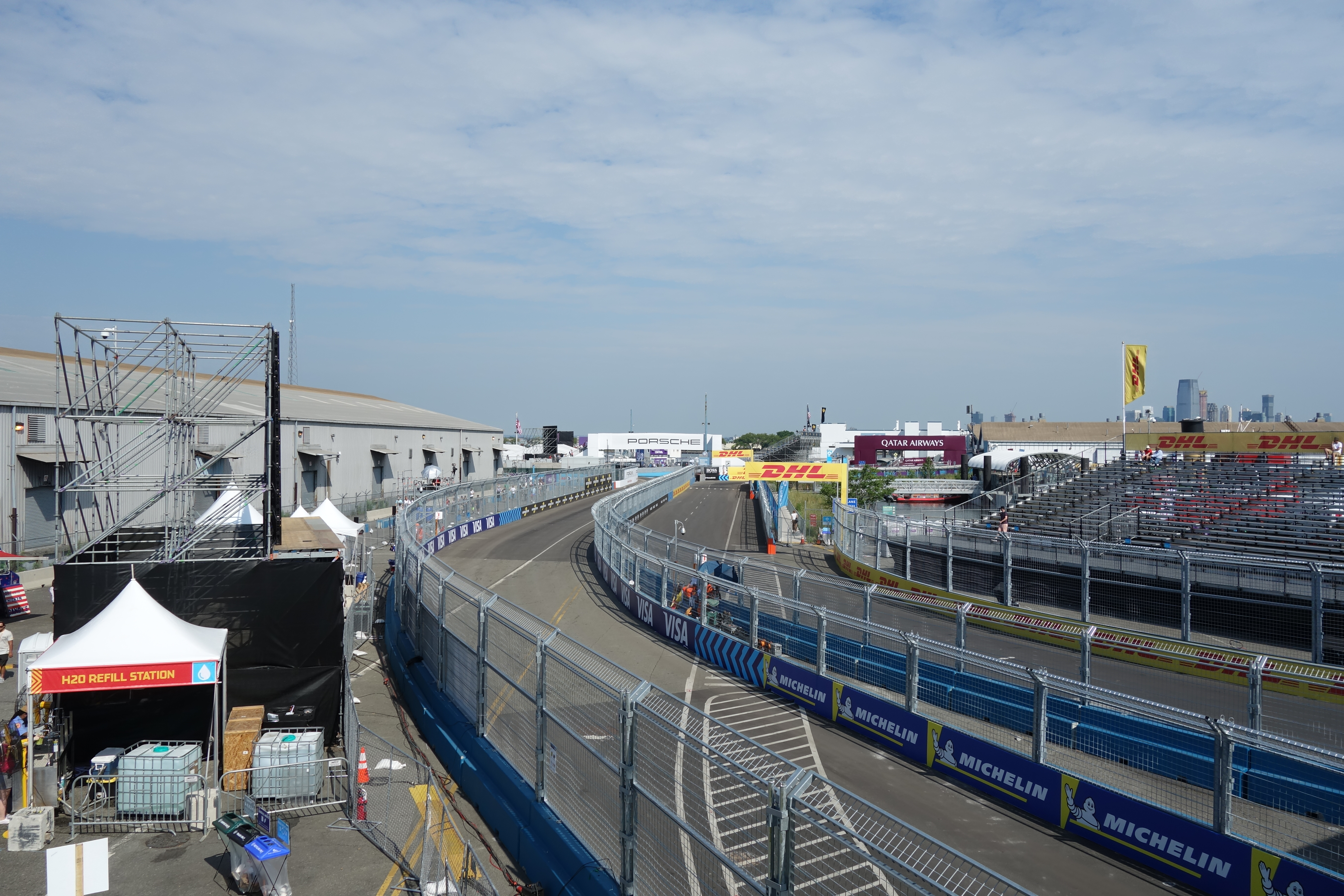 Looking west from the main overpass towards the "backstretch" of the Brooklyn Street Circuit prior to first race of the 2018 New York City ePrix on Saturday, July 14, at Bowne Street and Pioneer Street in Red Hook, Brooklyn. In the distance is the mysterious third grandstand, the "Emotion Grandstand" which is for VIPs.